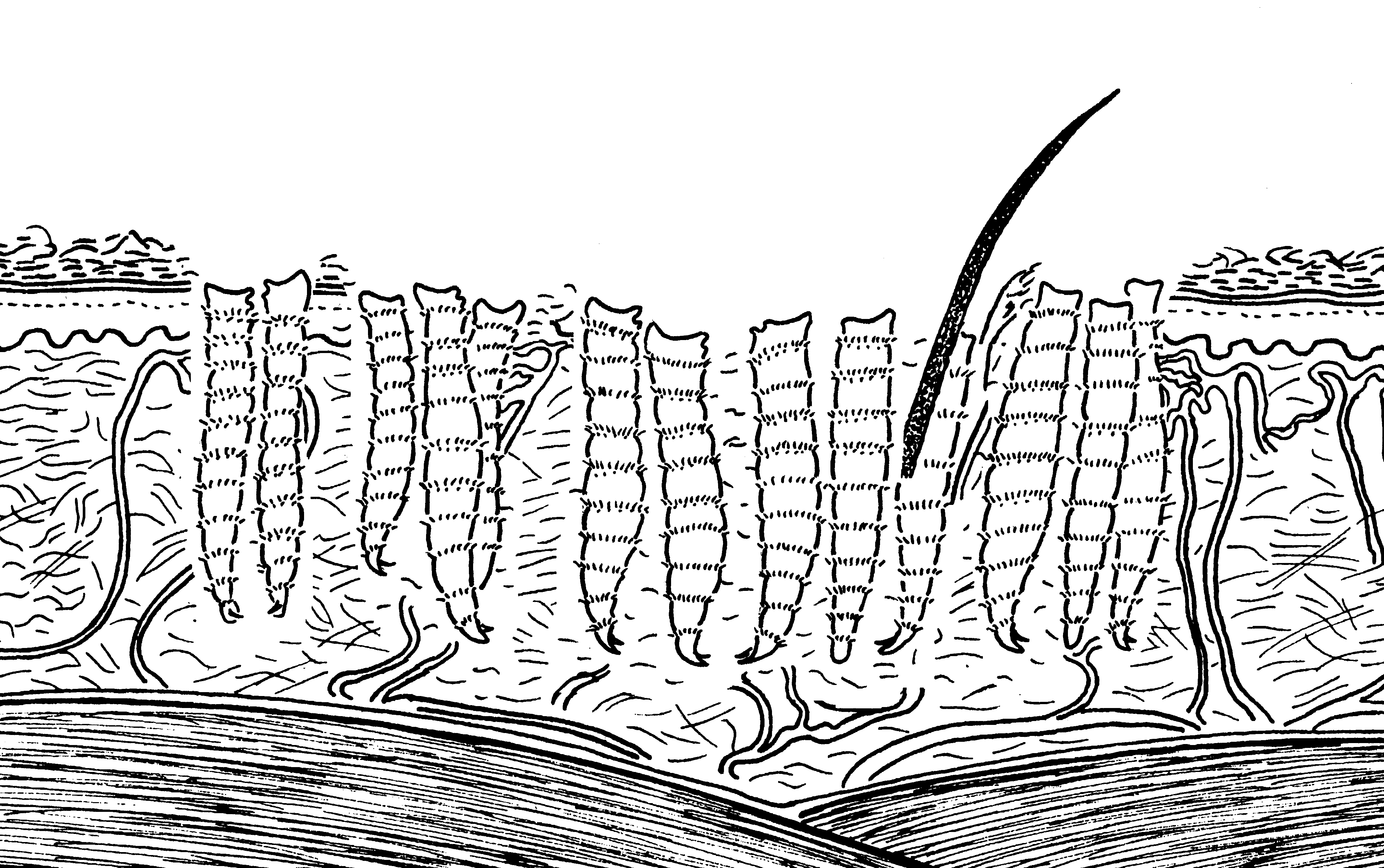 Screw-worm larvae feeding in skin of host (scale not accurate), an early infestation with stage 1 or 2 larvae.